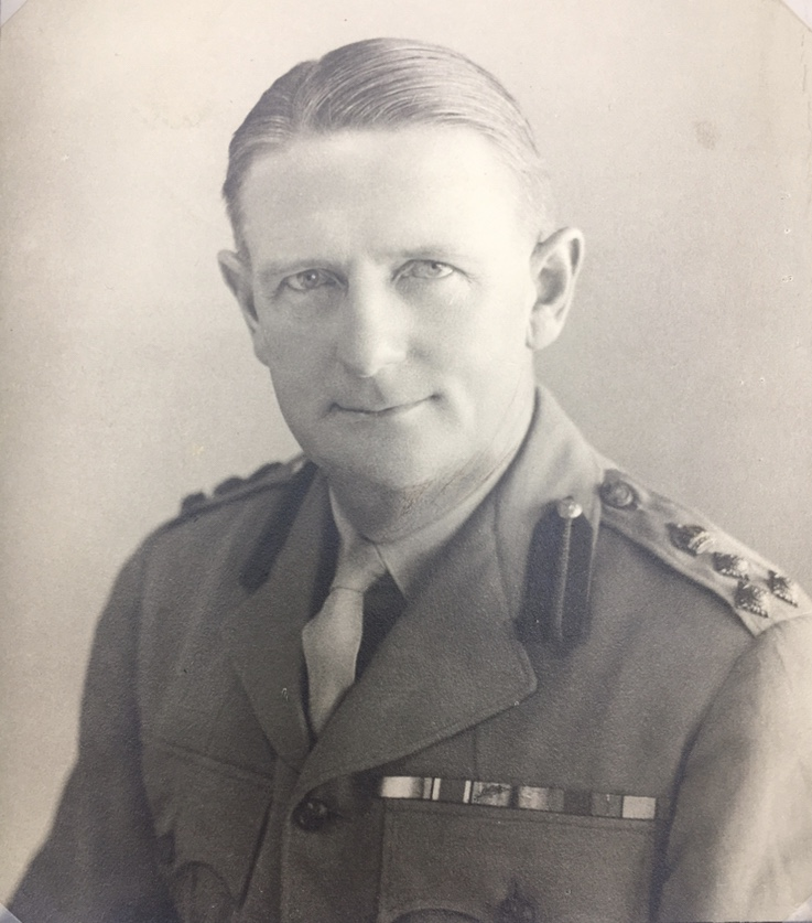 An image taken from the wartime album of the late Herbert Cecil Duncan OBE MID (1895-1942), Commander of the 45th Indian Infantry Brigade during the Battle of Malaya.